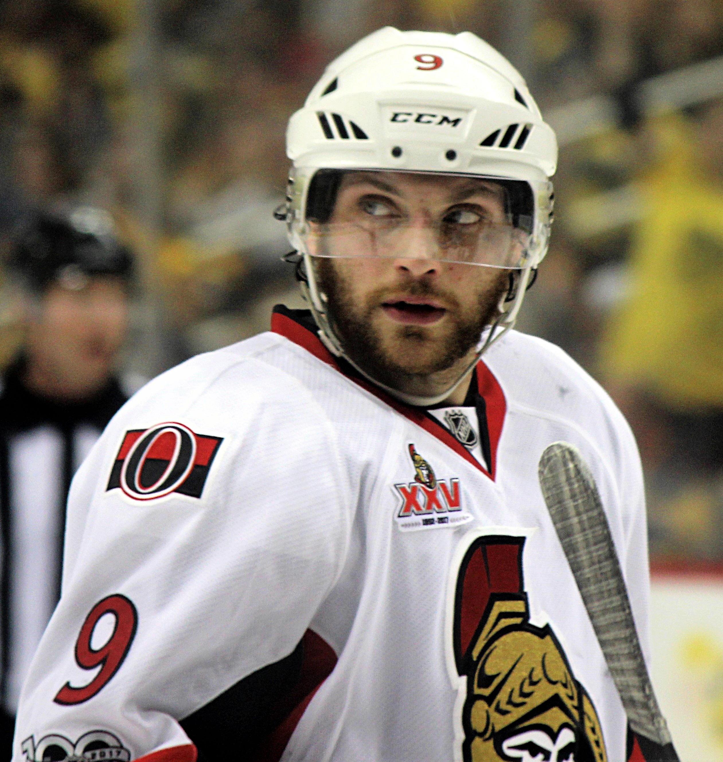 Ottawa Senators forward Bobby Ryan during a playoff game against the Pittsburgh Penguins, May 13, 2017, at PPG Paints Arena in Pittsburgh, PA.